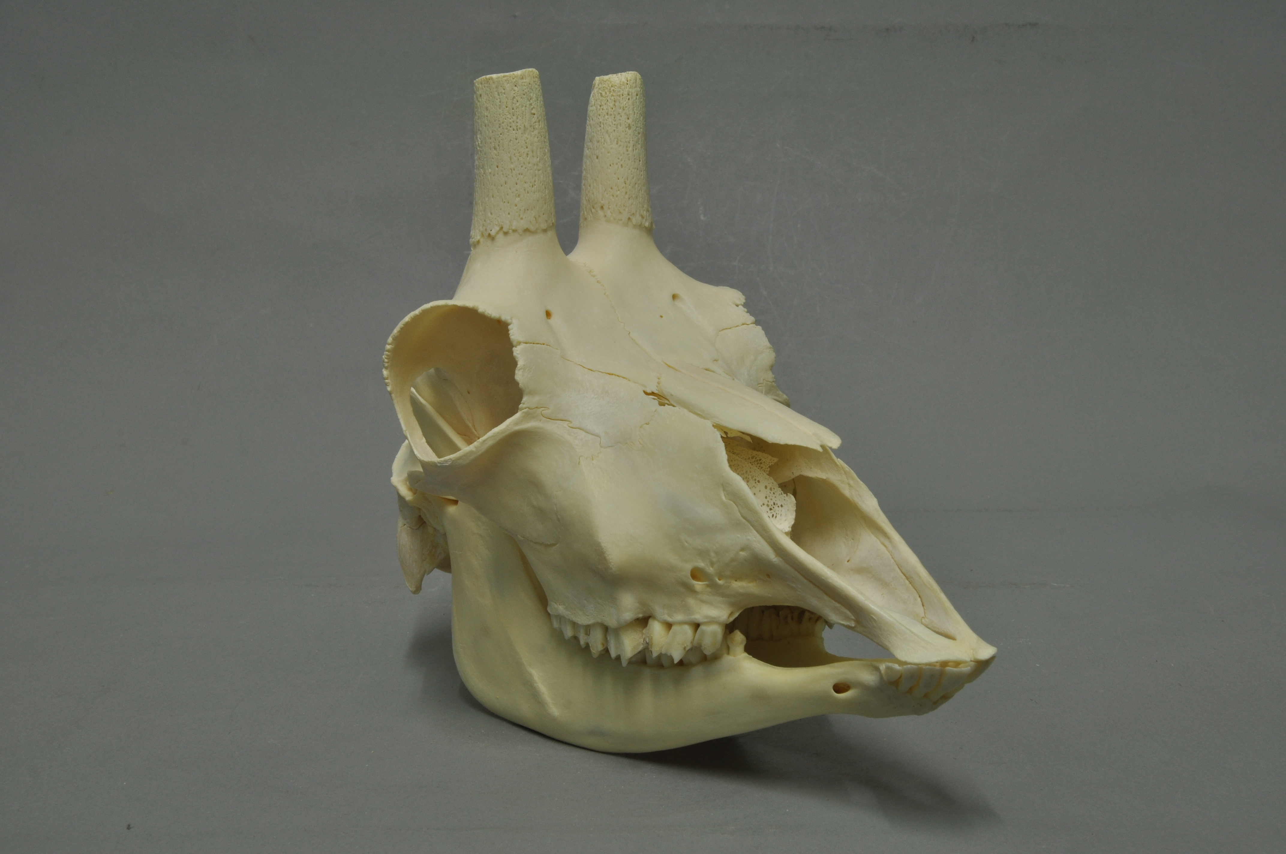 Chamois Rupicapra rupicapra , skull, Coll. Museum Wiesbaden